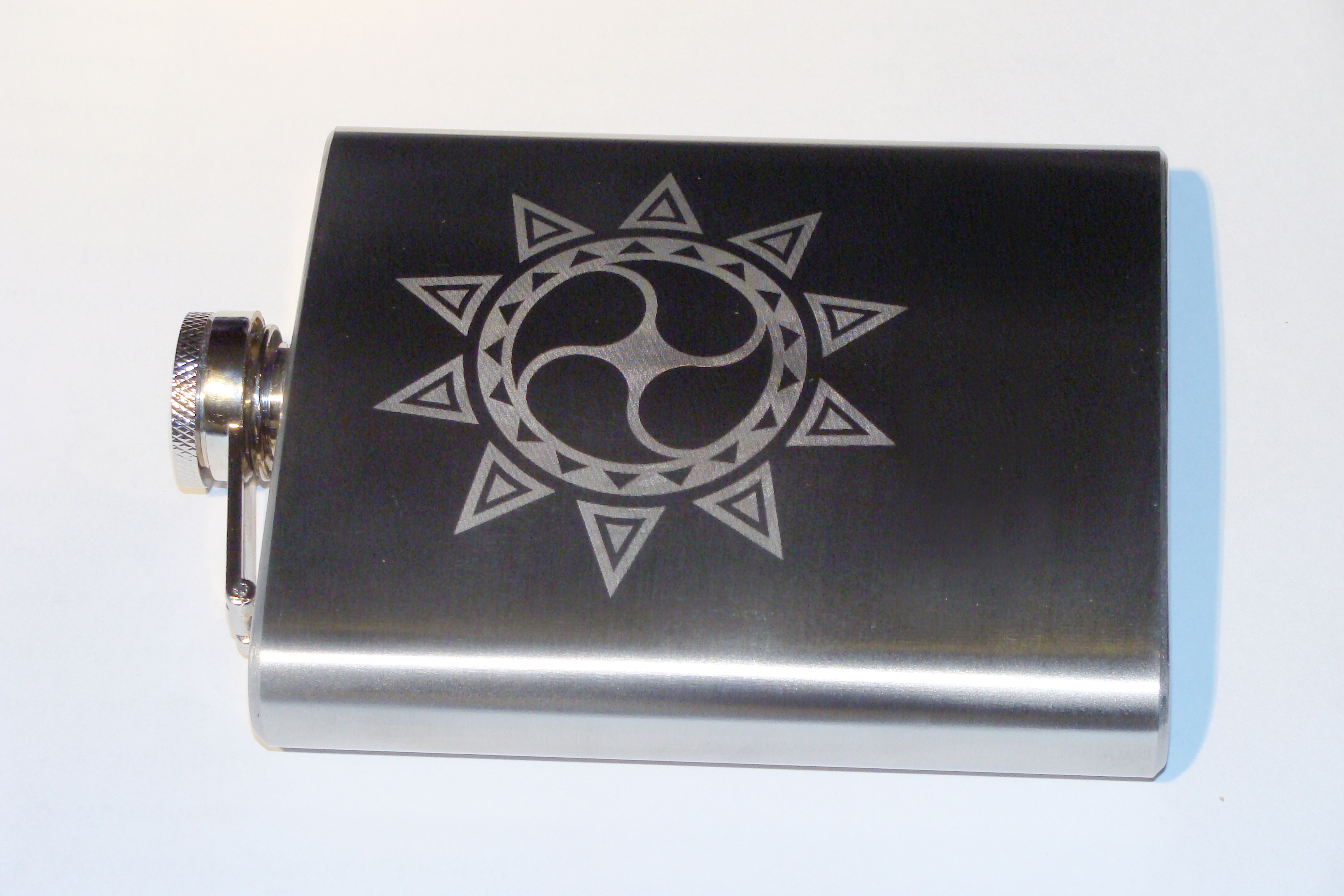 Hip flask